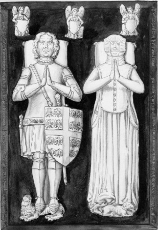 Charles de Montmorency et Perronnelle de Villers